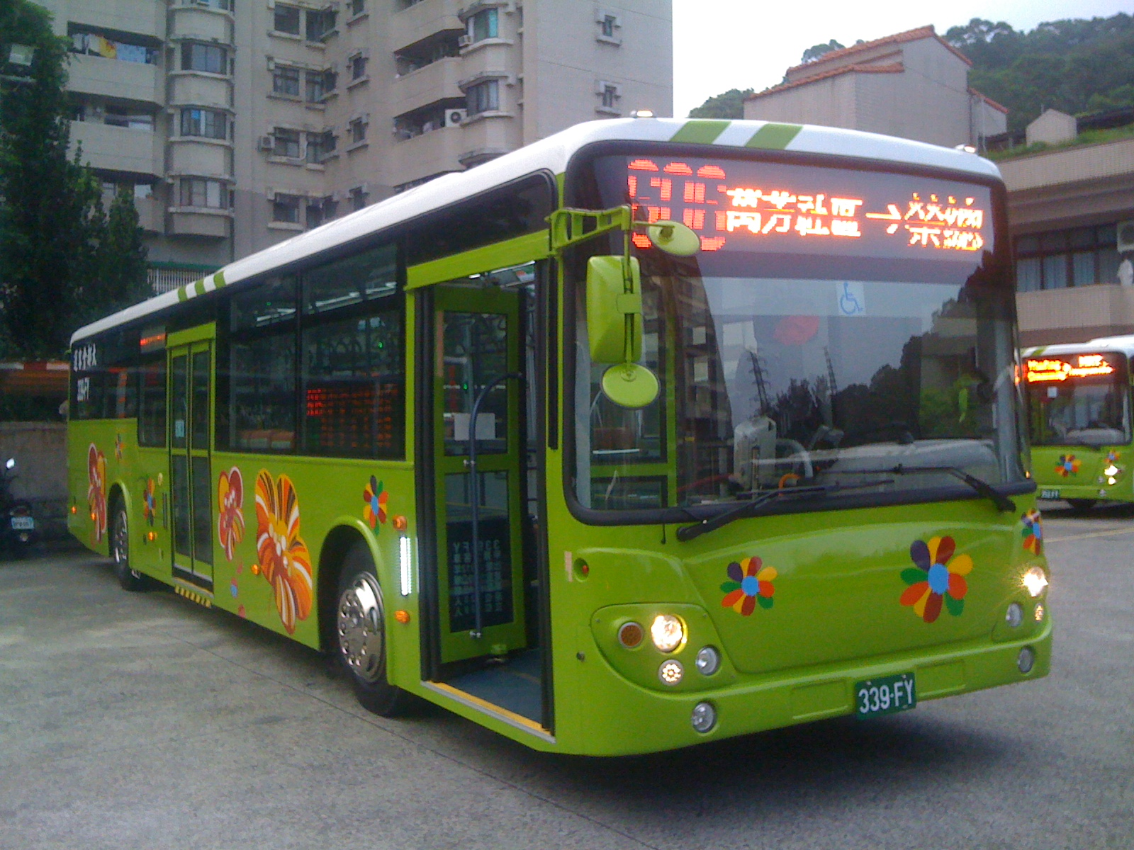 606 339-FY